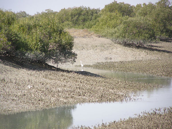 Hara Forests of mangroves - Qeshm Island, Iran